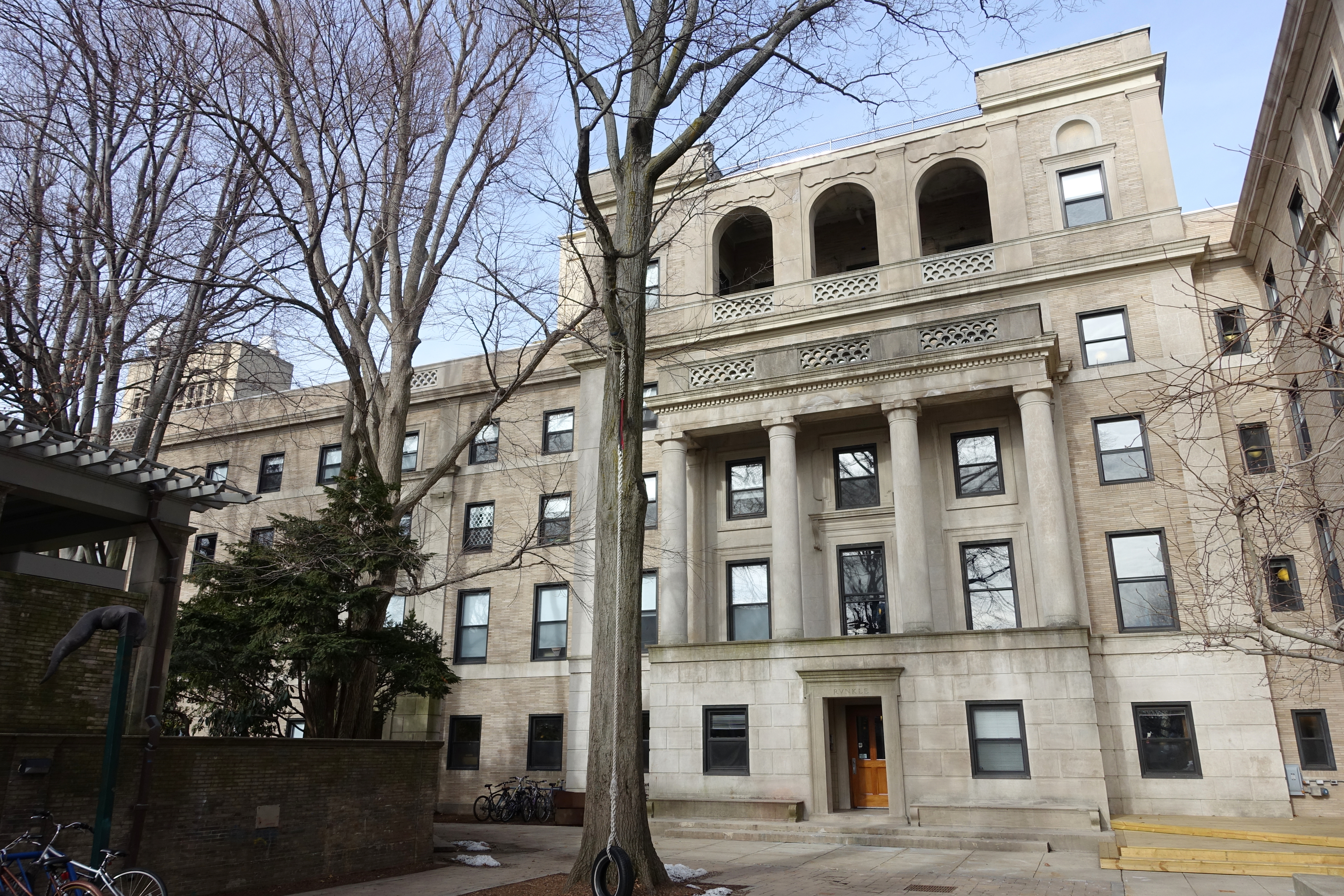 Senior House - MIT, Cambridge, Massachusetts, USA. Opened in 1918. This architectural design is in the public domain because it was first published in the United States before 1923.